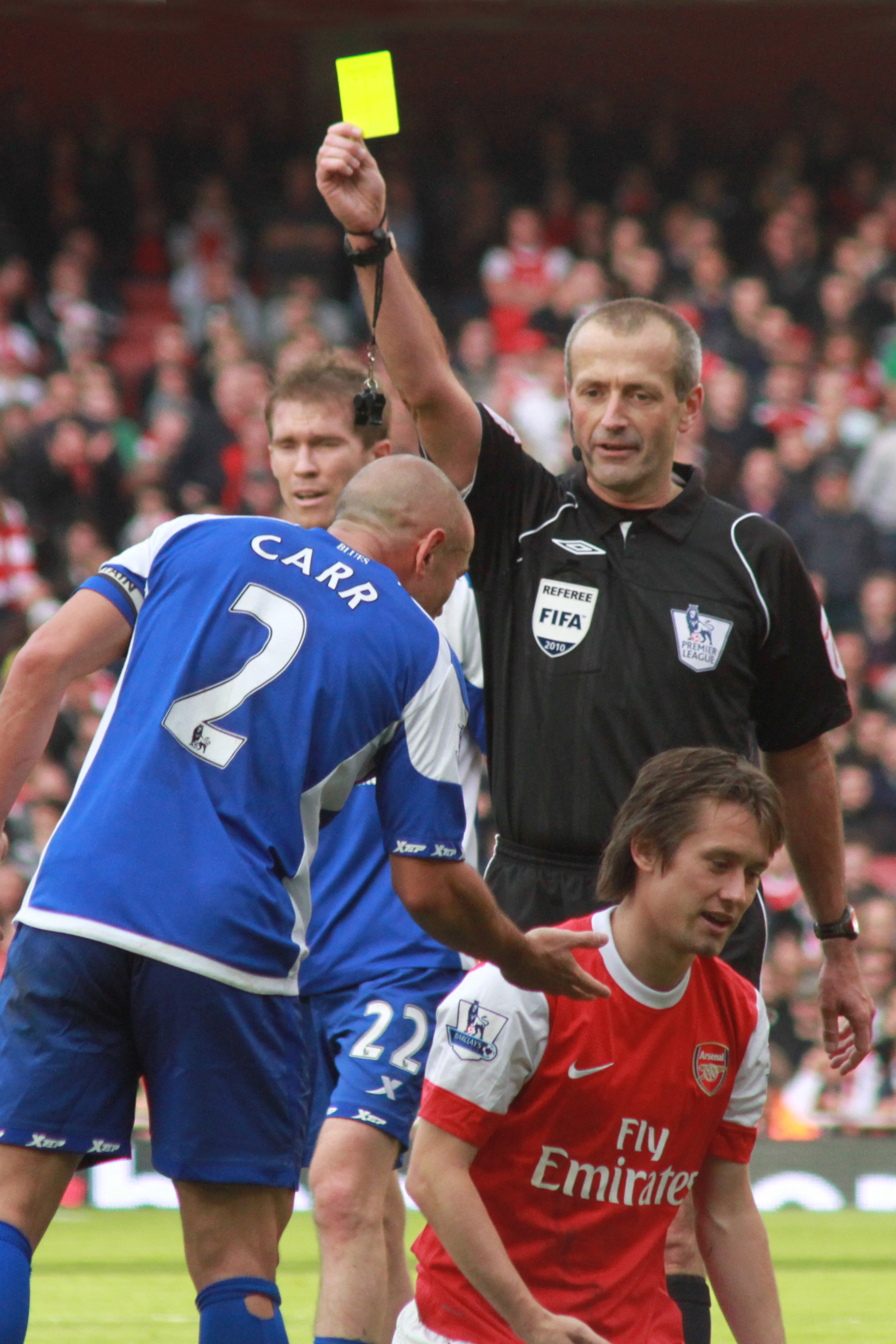 Arsenal v Birmingham City The Emirates 16 October 2010 (2-1)